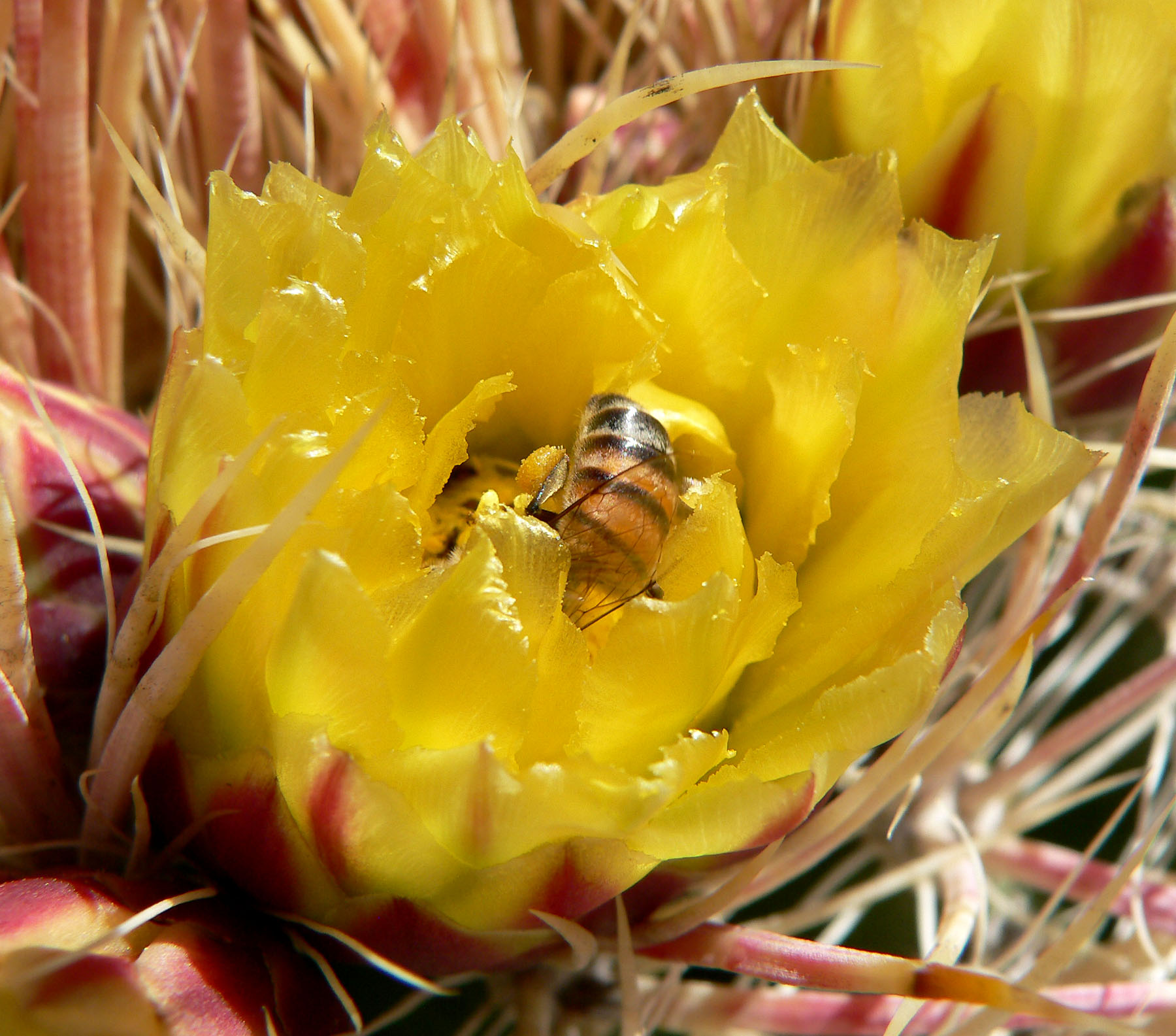 Ferocactus cylindraceus in Red Rock Canyon, southern Nevada